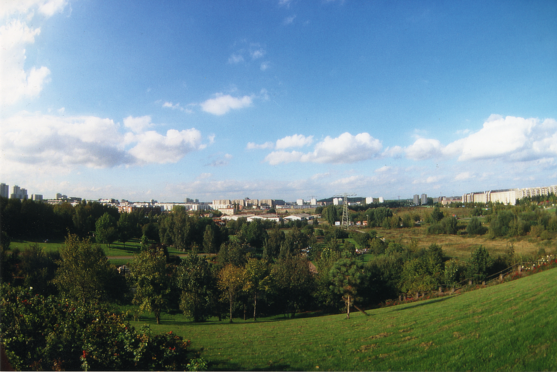 view from Kienberg in Berlin-Marzahn to north to the Wuhletal